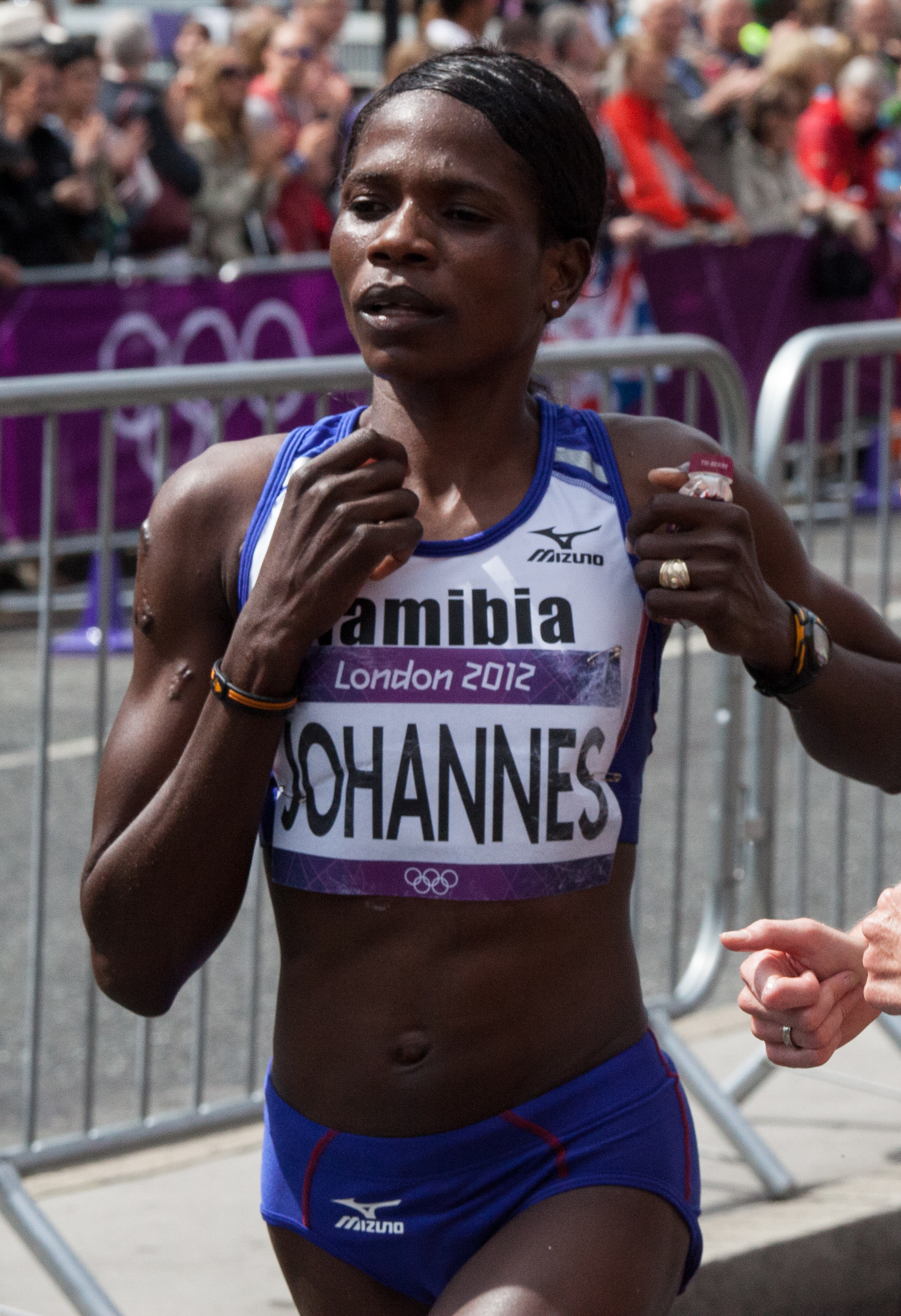 The women's marathon at the 2012 Olympic Games in London was held on the Olympic marathon street course on 5 August 2012.